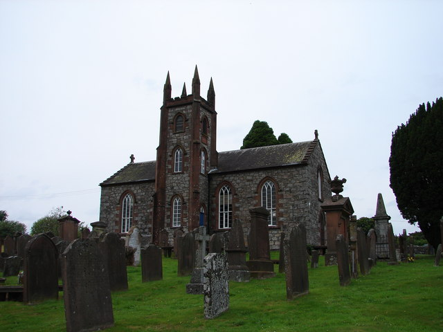 Kells Parish Church, New Galloway. Kells Parish Church is a rough granite cruciform kirk, the south limb formed by the battlemented tower. It stands in a fine setting above the Royal Burgh of New Galloway. The churchyard has interesting headstones including an Adam & Eve stone, Martyrs' memorials and a gamekeeper's grave 867126